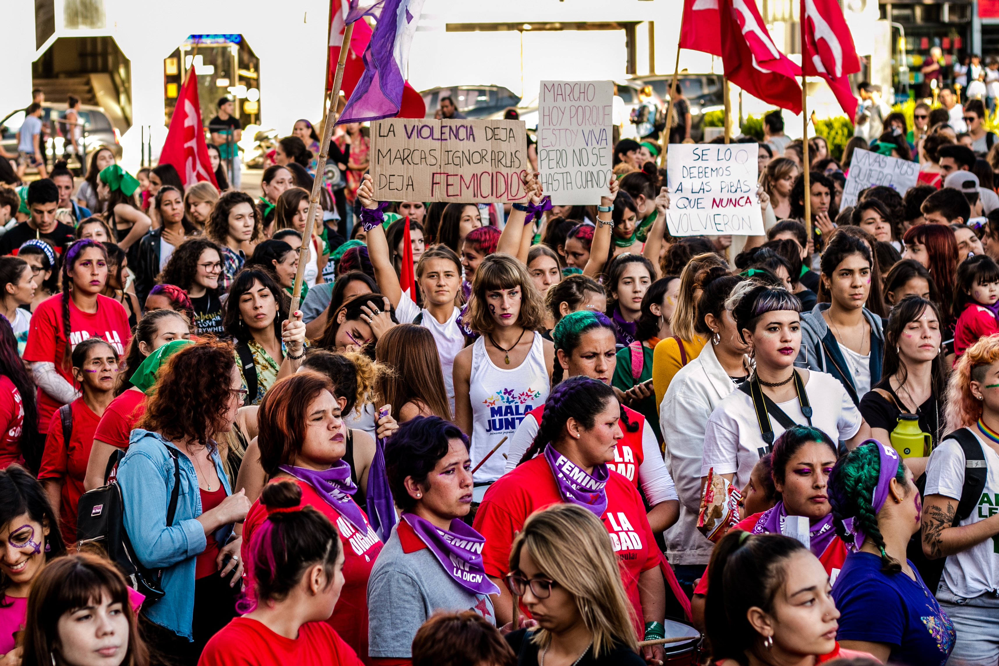 International Women's Strike - 8M - Paraná - Entre Ríos - Argentina - March, 2019